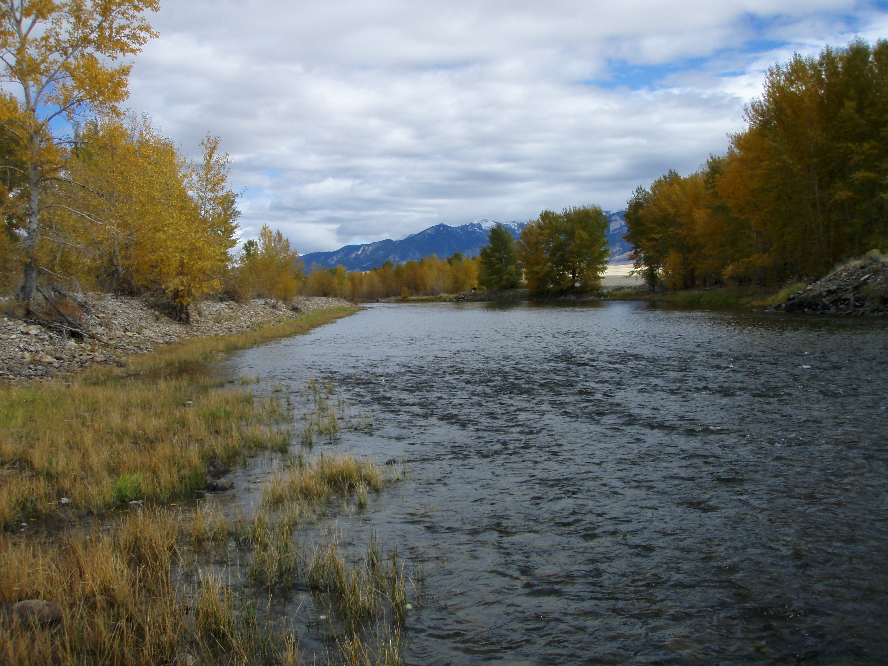 Big Hole River near Twin Bridges, MT